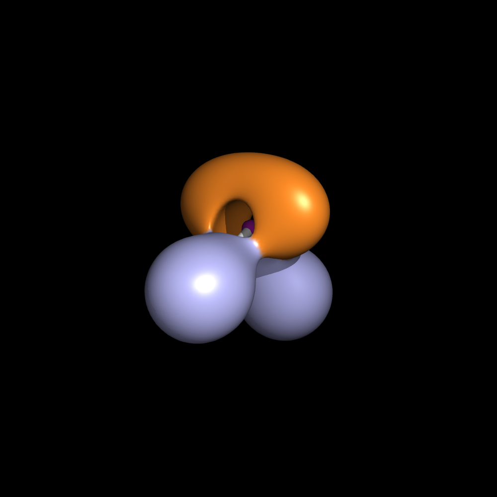 Image of the electron localization function of water at level=0.8 as generated by PyMOL